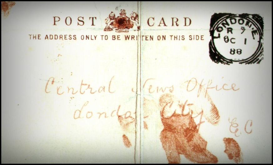 Jack the Ripper's "Saucy Jacky" postcard front side